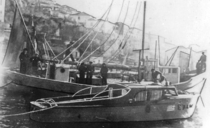 Ships of Greek People's Liberation Navy, WW II This media file is produced by Wikipedian in Residence in Category:Wikipedian in Residence at DARM in 2016.